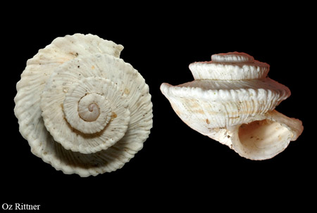 A Xyrocrassa davidiana picardi shell, from the Natural history collections of Tel Aviv University, Israel.